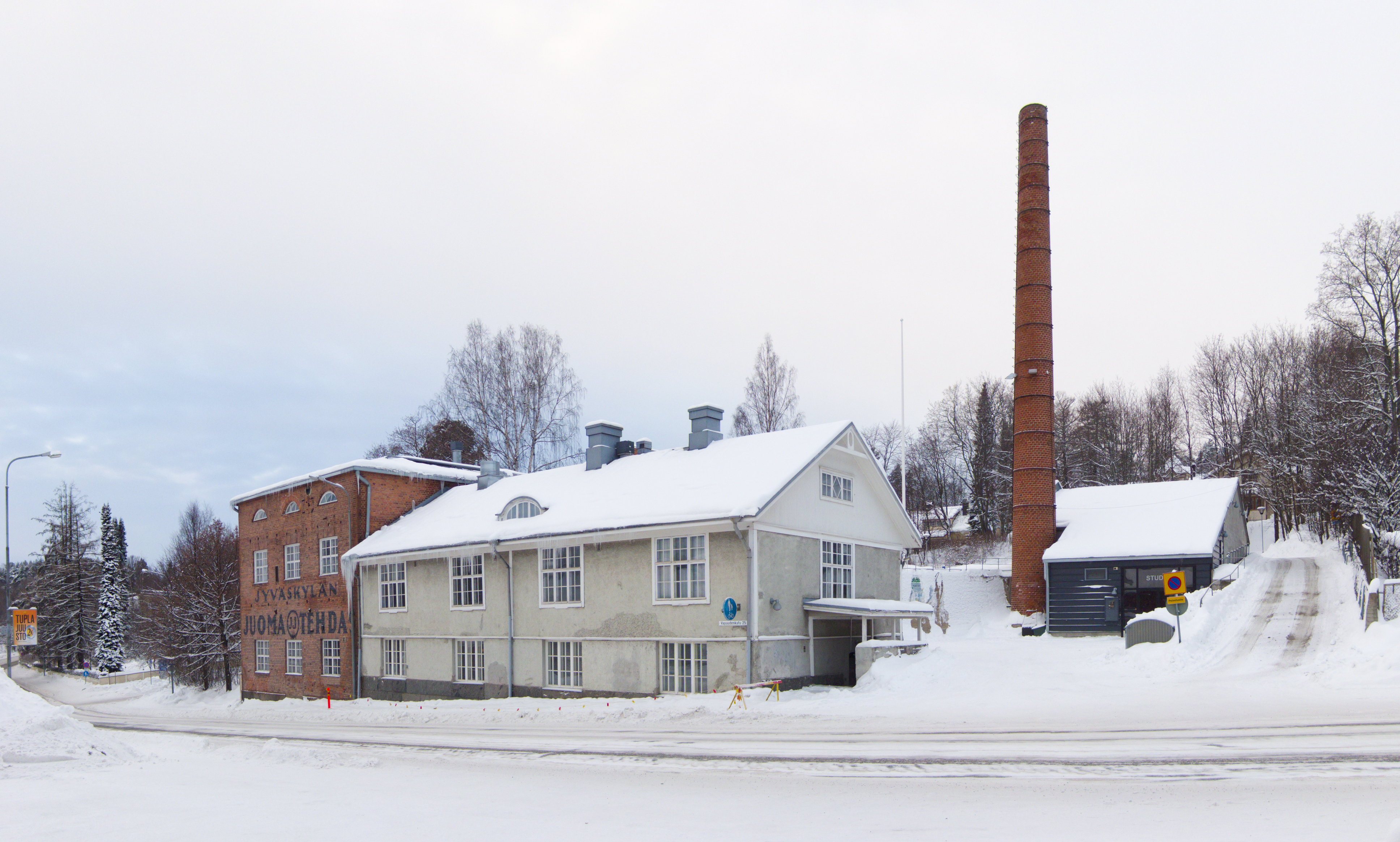 The old beverage factory of Jyväskylä, Finland. The building hosts nowadays part of the University of Jyväskylä.